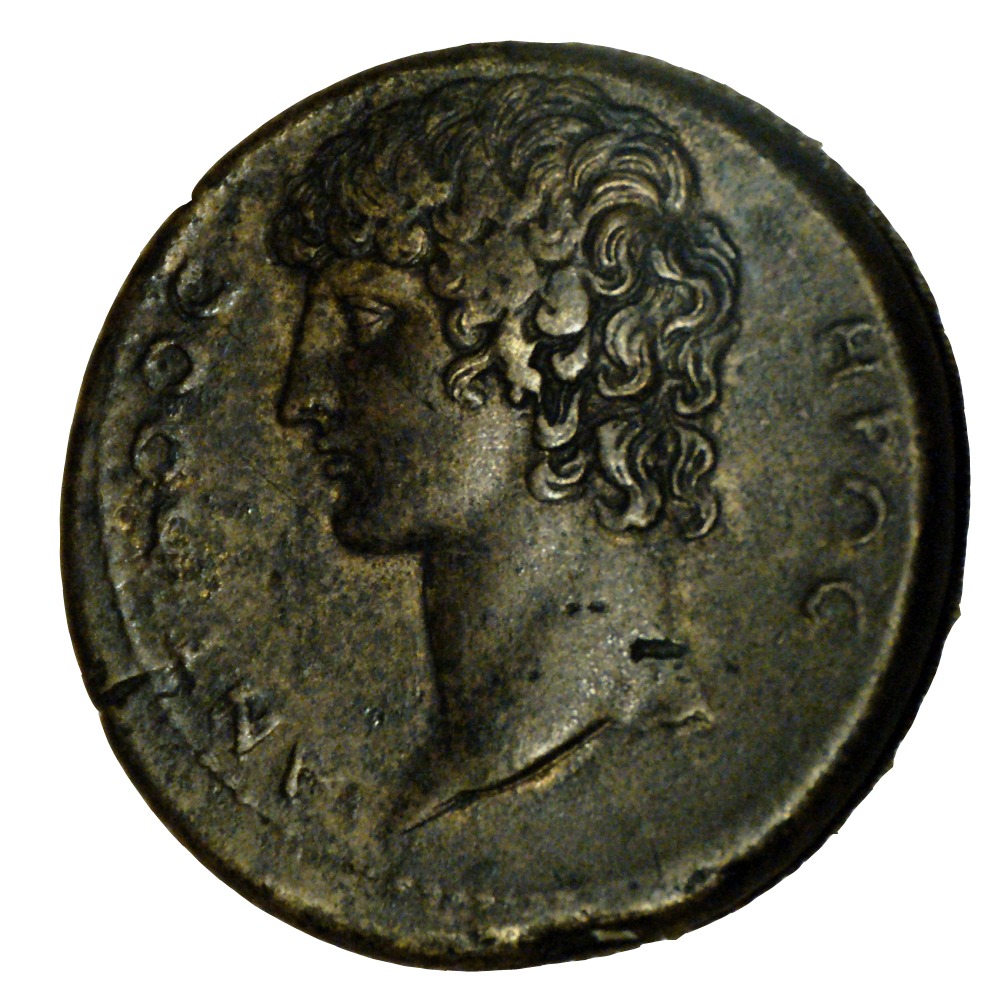 Medallion minted by the city of Smyrna under the reign of Emperor Hadrian, Polemon being magistrate. Reverse: bust of Antinoos, with inscription ΑΝΤΙΝΟΟϹ ΗΡΩϹ (“Antinoos hero”).